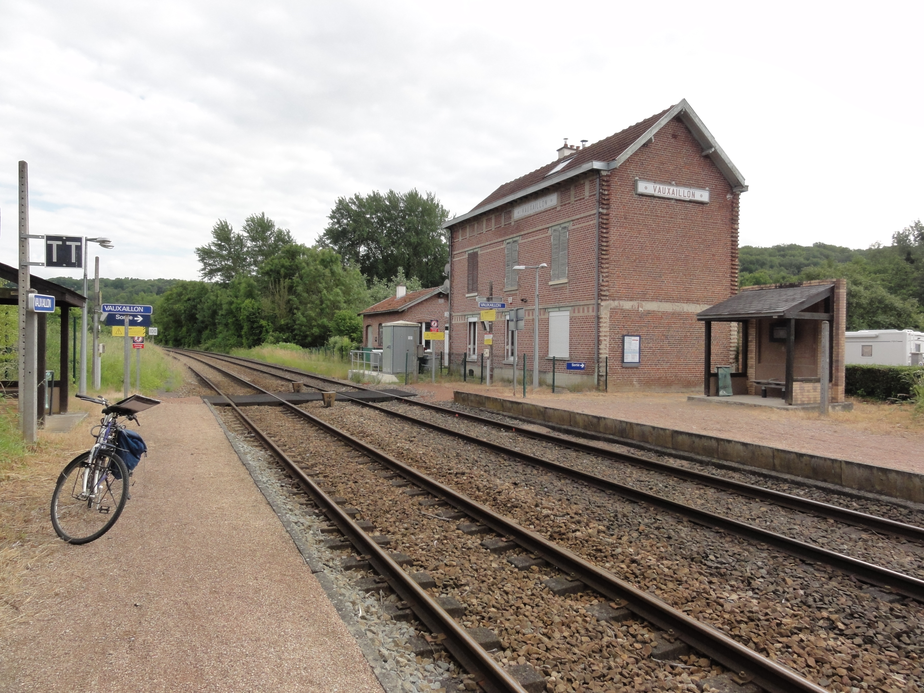 Vauxaillon (Aisne) la gare